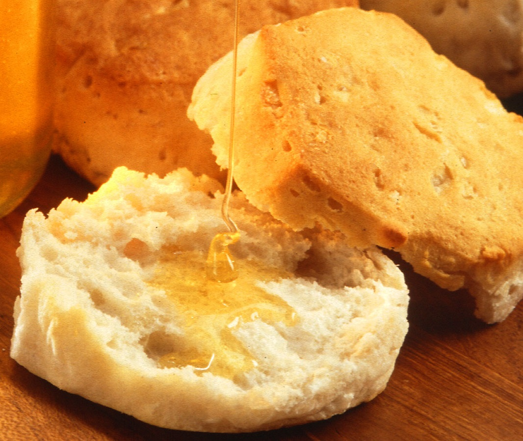 A biscuit (in the US sense: a flaky soft baked bread) which has been broken open to show its interior. Honey is being drizzled onto it.